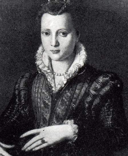 Portrait of Anna de' Medici (1569-1584), daughter of Francesco I de' Medici